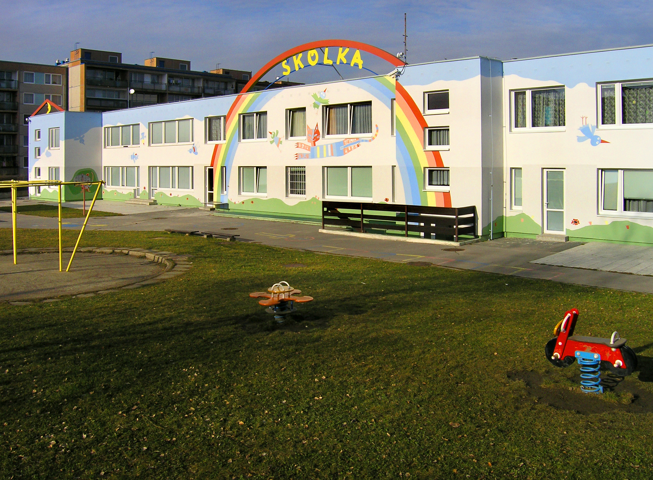 Kindergarten at Blatenská street in Chodov, Prague